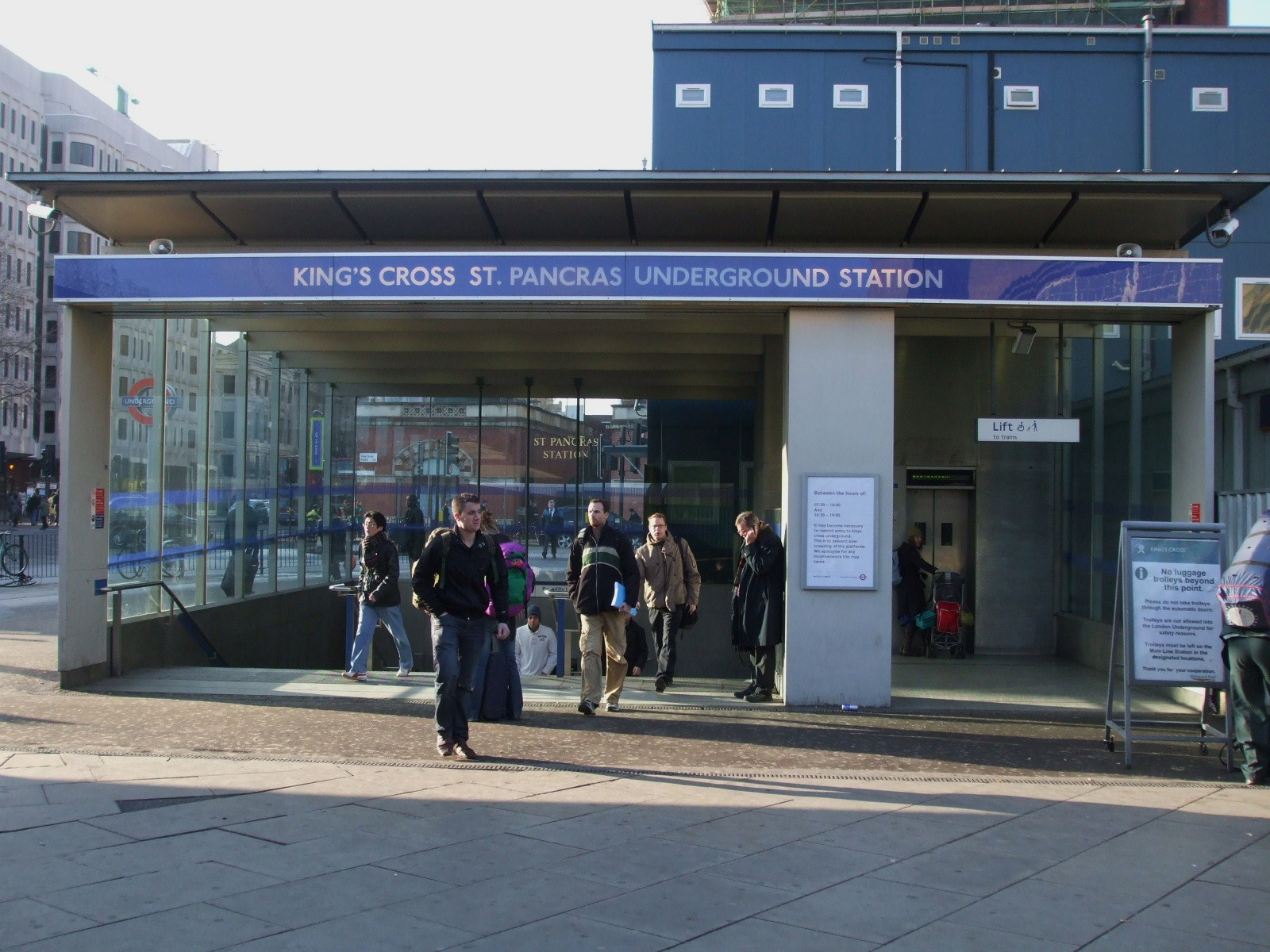 King's Cross St Pancras tube station entrance, on the northeastern side of the Euston Road/Pancras Road junction, just outside the entrance to King's Cross main line station.